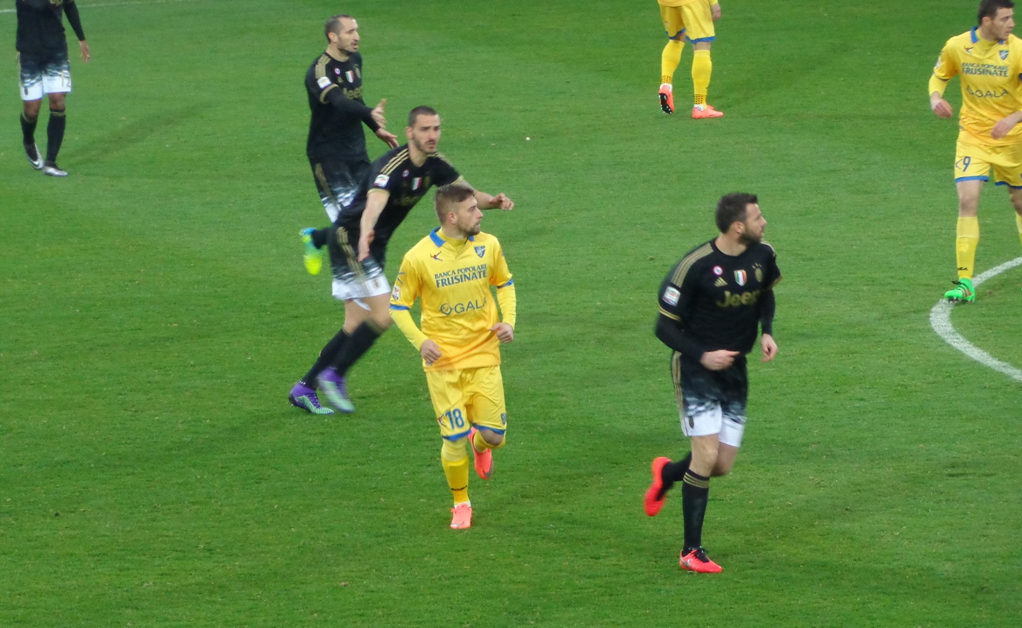 Frosinone, Matusa Stadium, February 7, 2016. Frosinone — Juventus 0-2, Italy Championship 2015–16 Serie A. From left to right: Giorgio Chiellini, Leonardo Bonucci, Federico Dionisi and Andrea Barzagli.